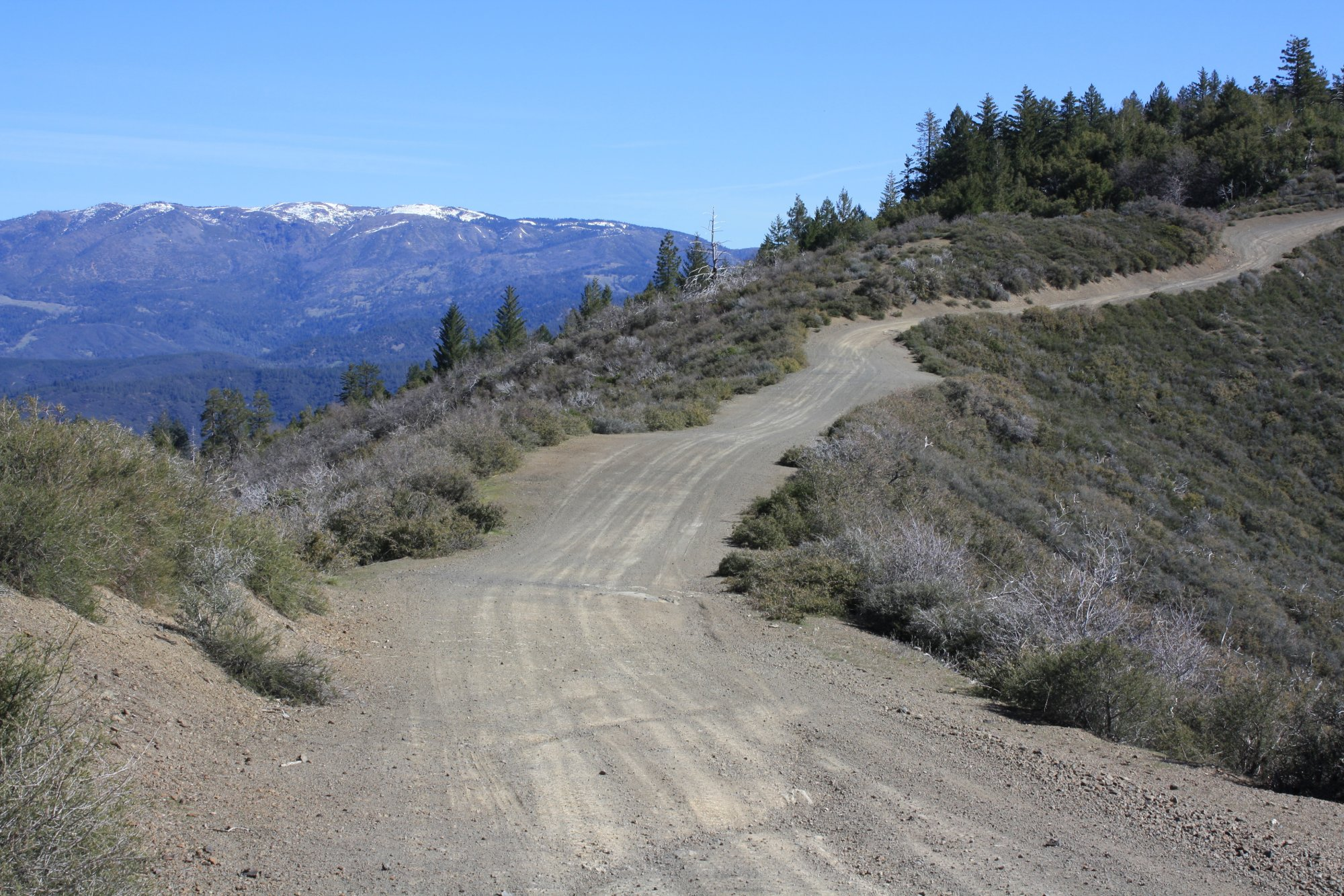 Snow Mountain, French Ridge, in the Mendocino National Forest, Lake County, California